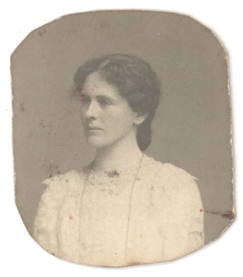 Ellen Isabel Jones as a young woman. Undated but likely 1900s.